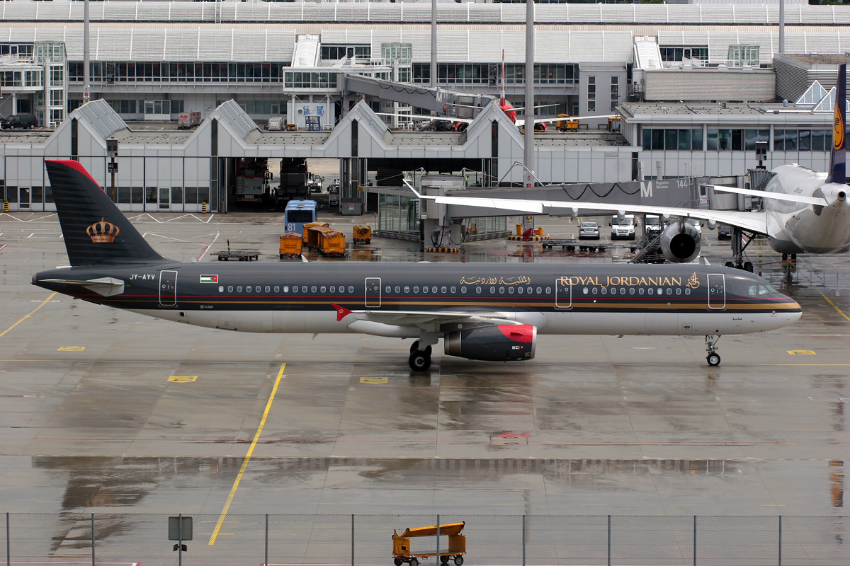 Munich (EDDM/MUC) Airport